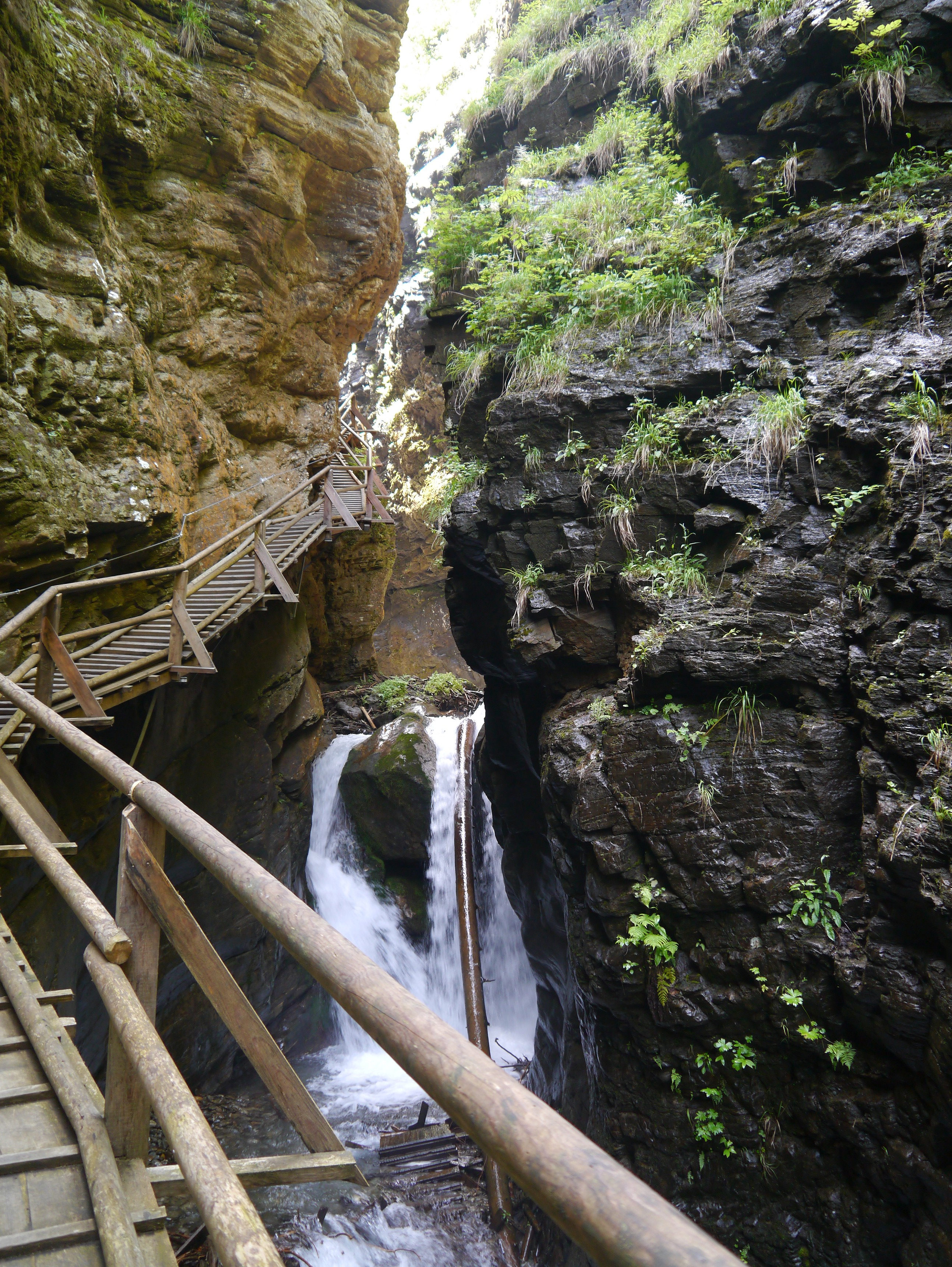 Ragga ravine near Flattach, Carinthia, Austria